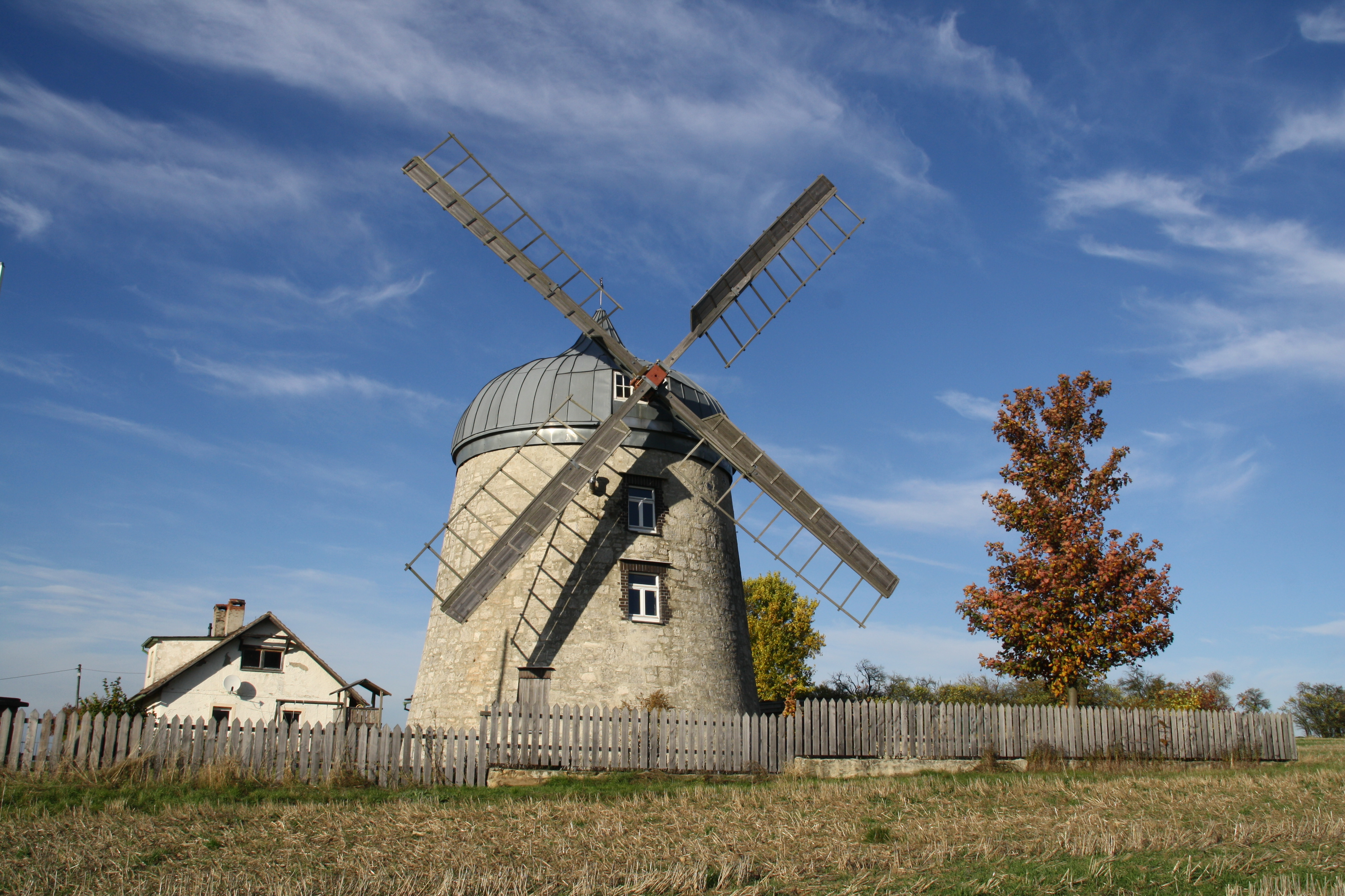 Mill in Tultewitz